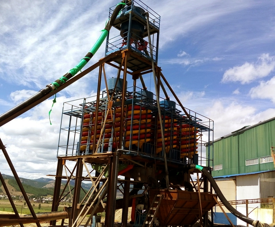 Spiral separators (W)